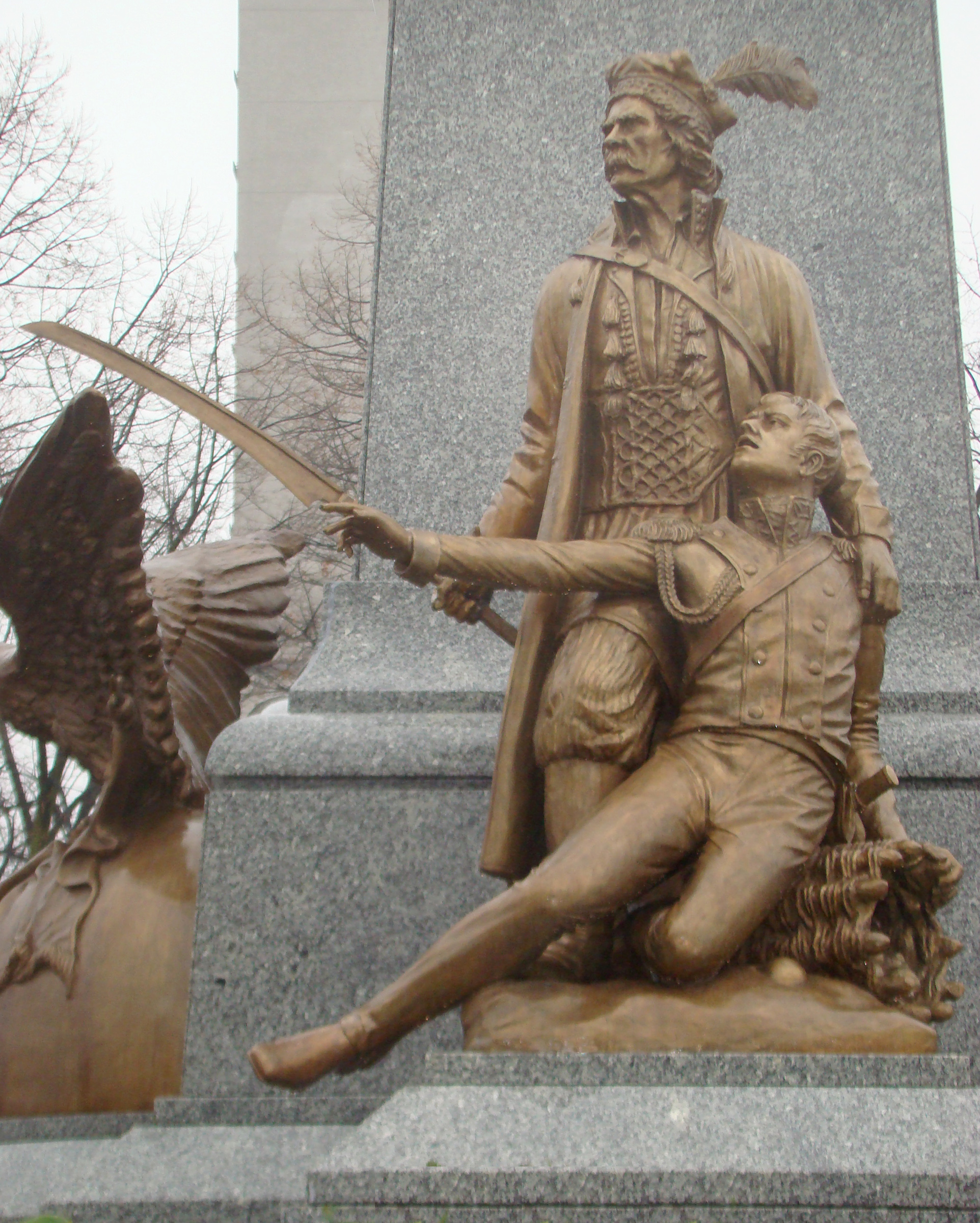 Kosciuszko monument Warsaw